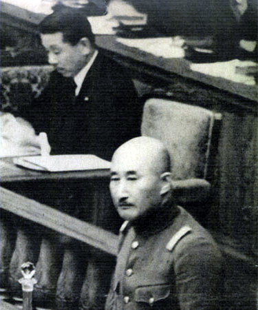 Japanese War Minister Hisaichi Terauchi (1879–1946, right) countercharging Rep. Kunimatsu Hamada’s speech accusing military interference in politics. The dialogue (known as the Hara-kiri Argument) would lead the government head by Prime Minister Kōki Hirota (1878–1948, in office 1936–37, back) to resignation.